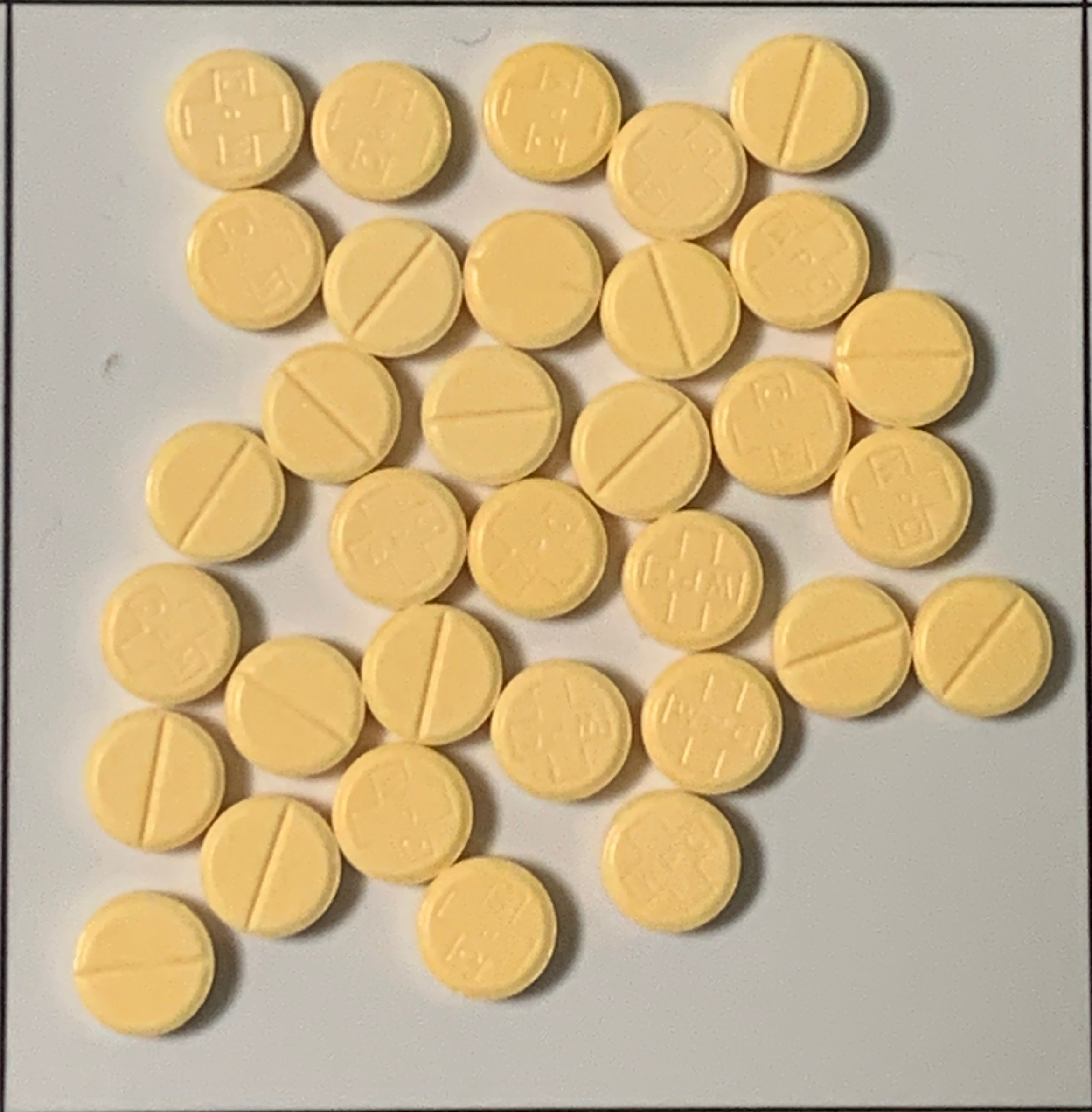 Lorazepam(Ativan) 1mg x 33 in South Korea